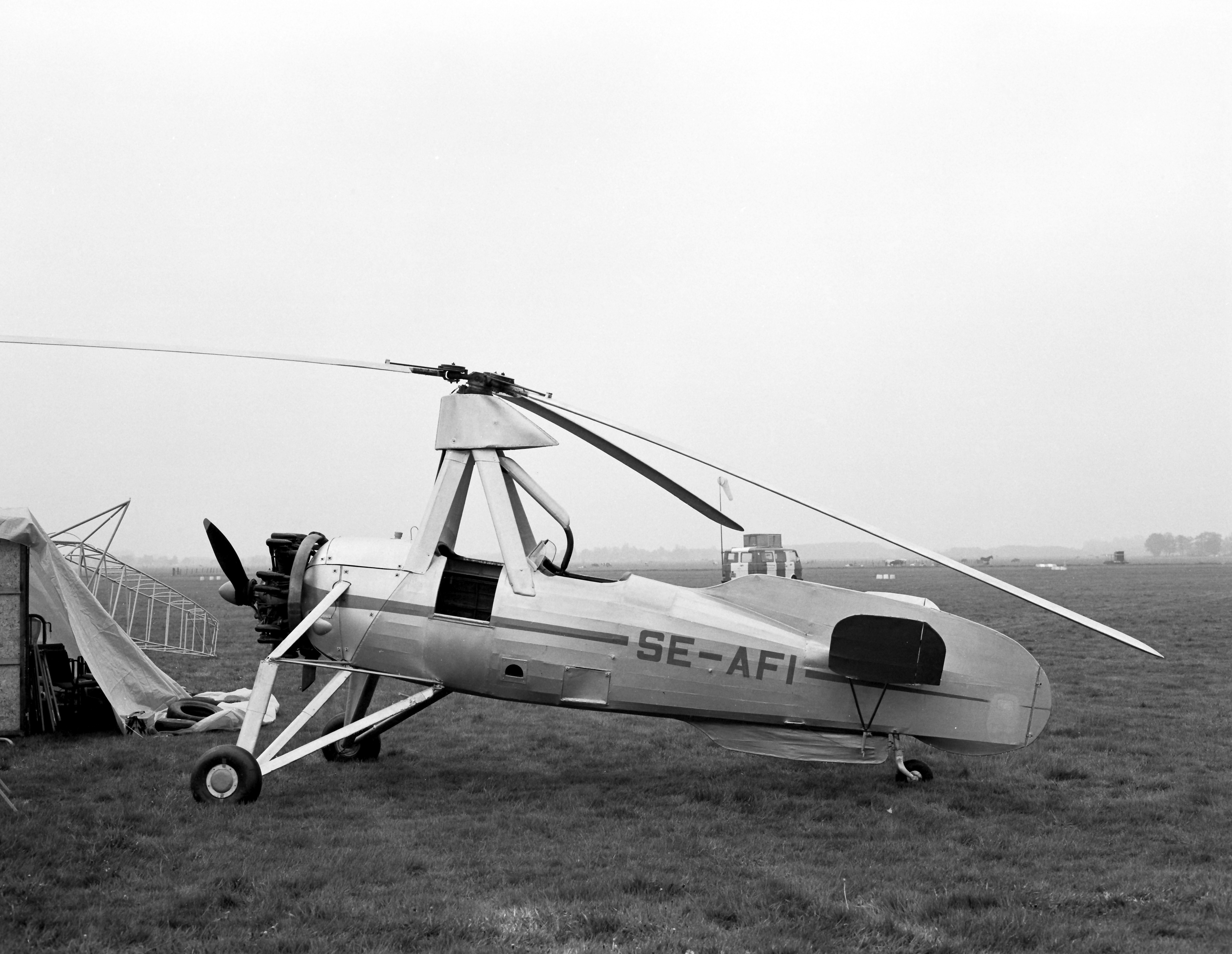 SE-AFI Cierva C.30 autogiro from the aviodome (now Aviodrome) on display at Hilversum 20 May 1984